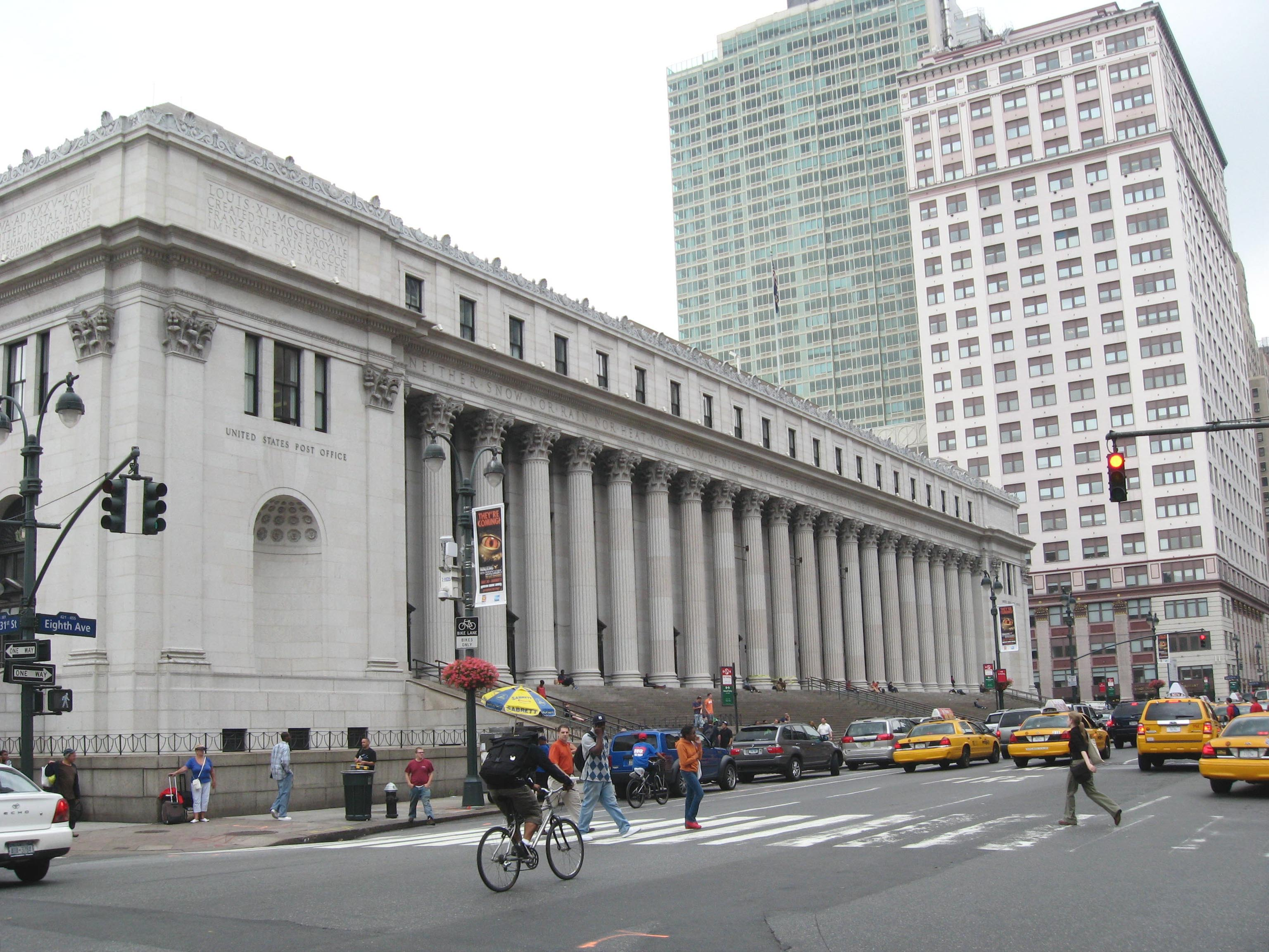 Looking north across Eighth Avenue (Manhattan) at James Farley Post Office on a cloudy afternoon. Replaced in PO article by File:PO 10001 colonnade nite jeh.JPG night shot.